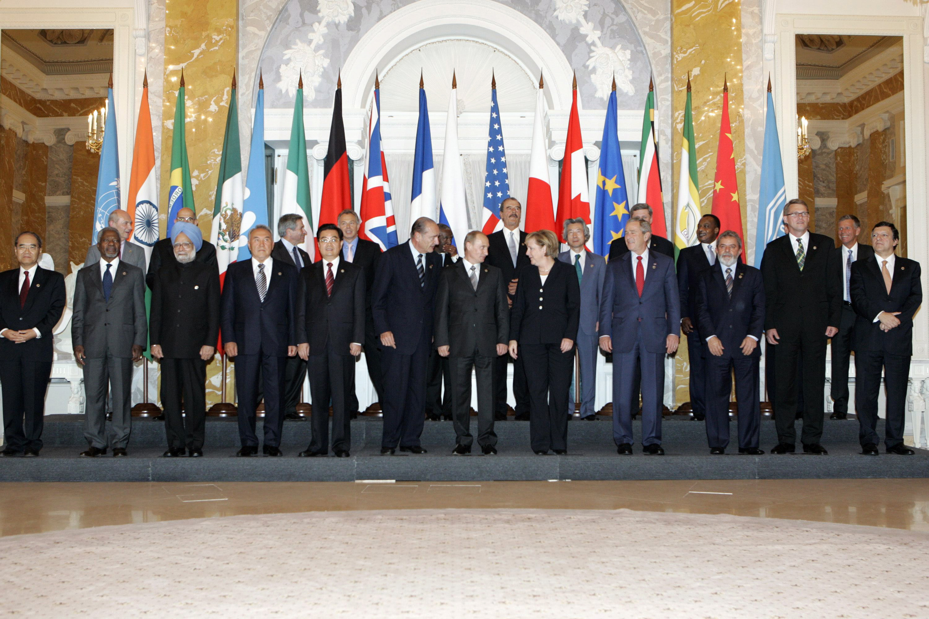 The official photo session of the G8 leaders, invited leaders and heads of international organizations.